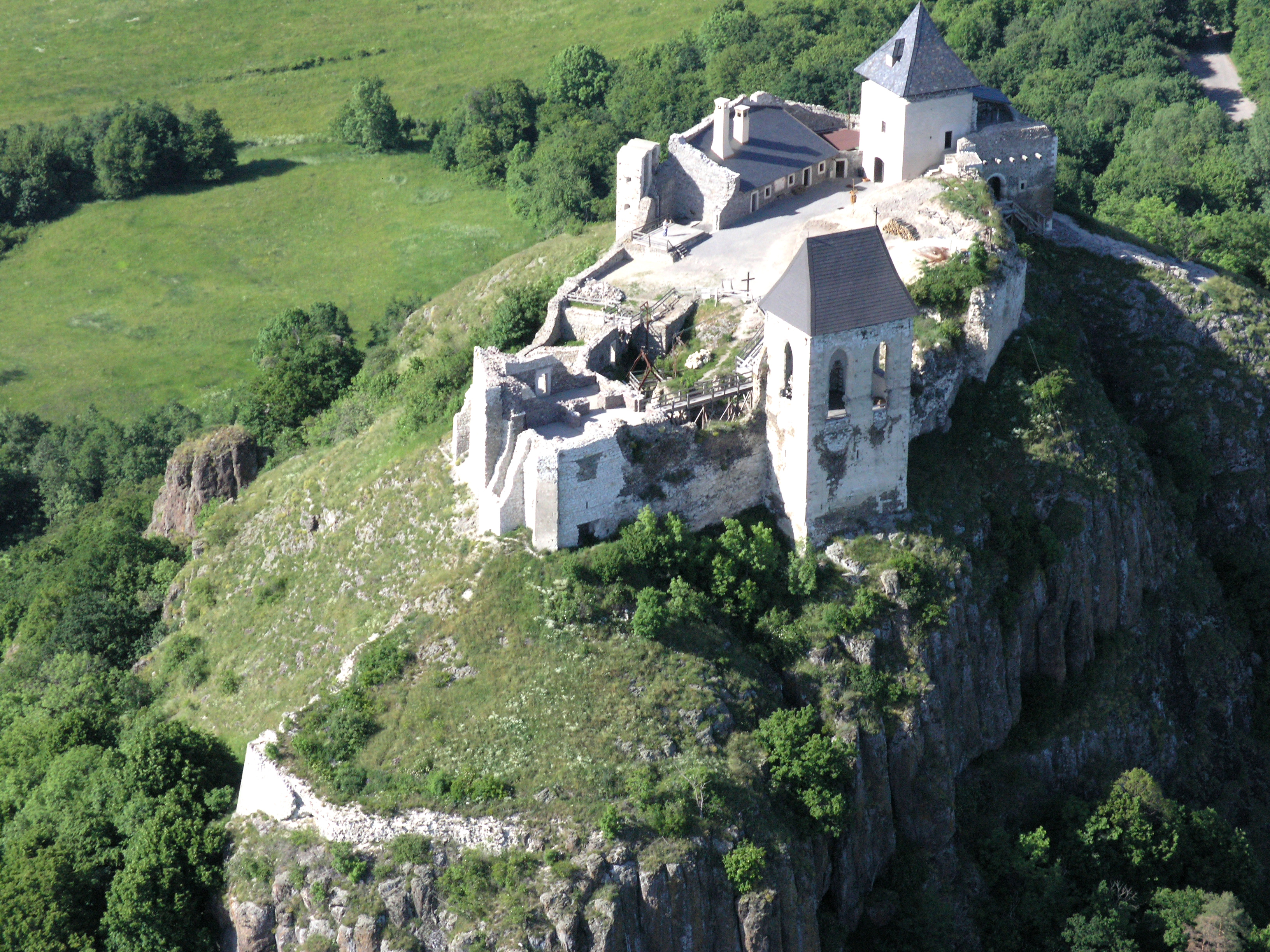 Füzér, Castle, Hungary, aerial photography